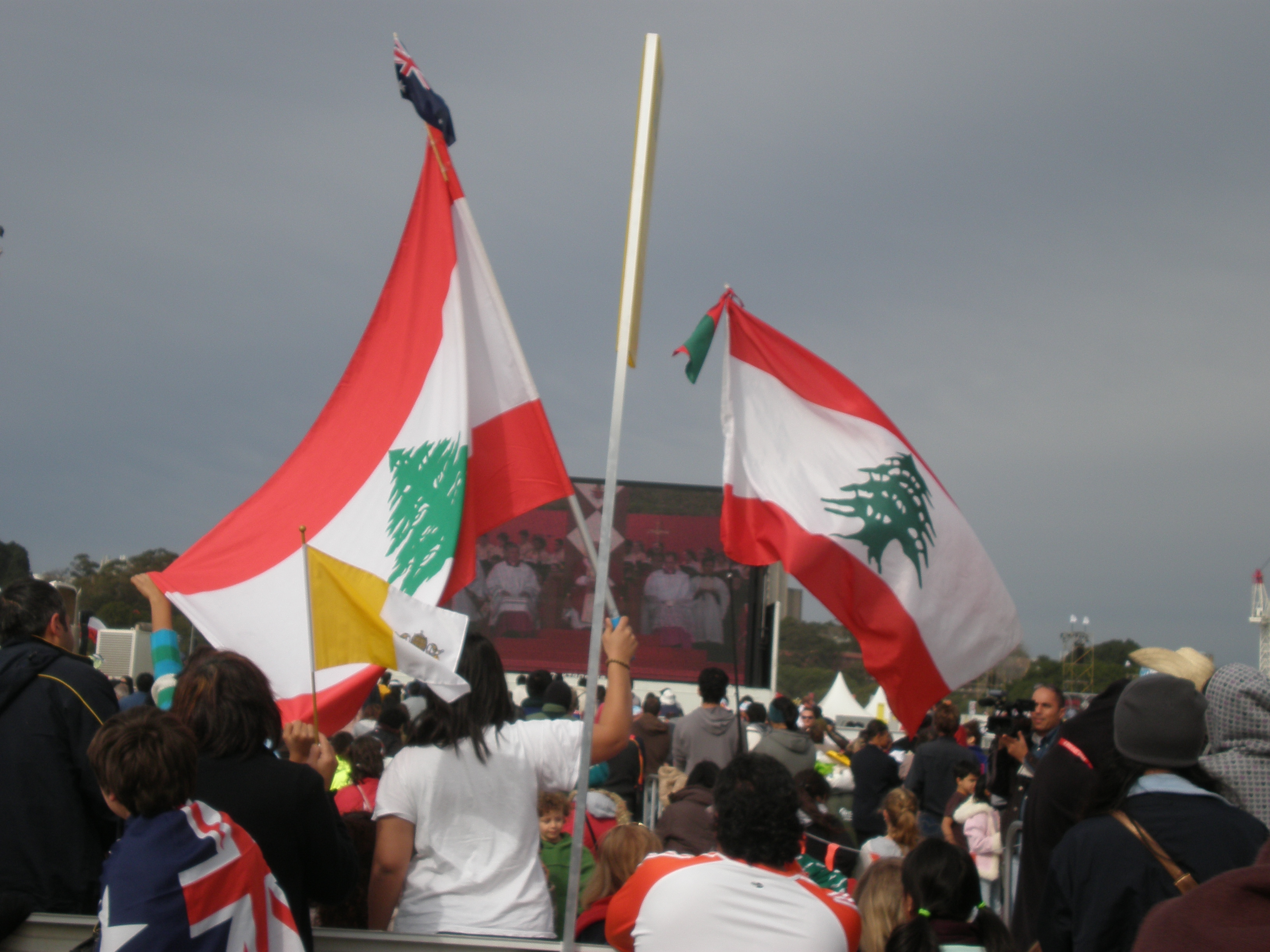 Lebanese celebrate World Youth Day 2008 in Sydney, Australia.